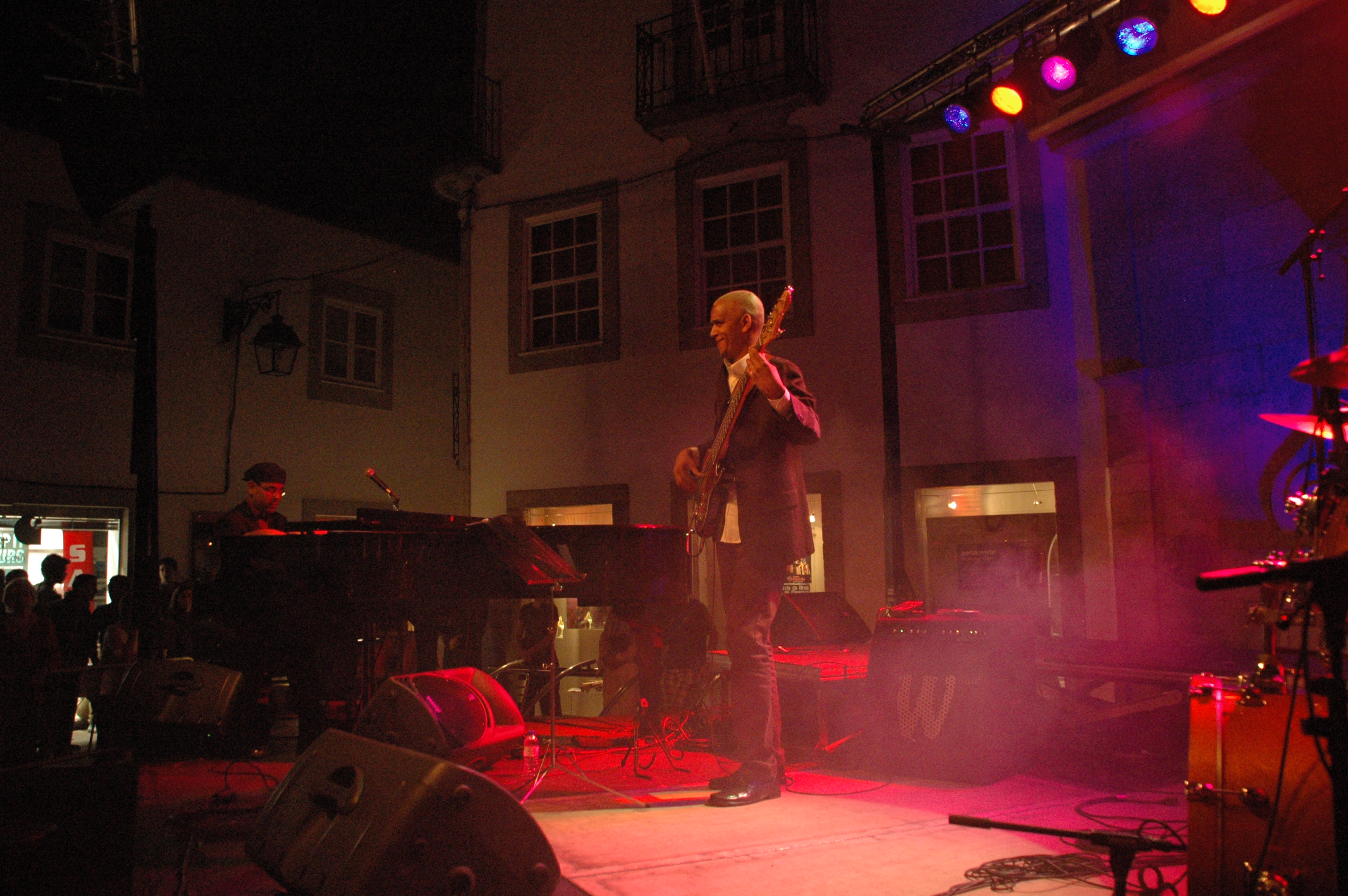 Viana do Castelo - Portugal